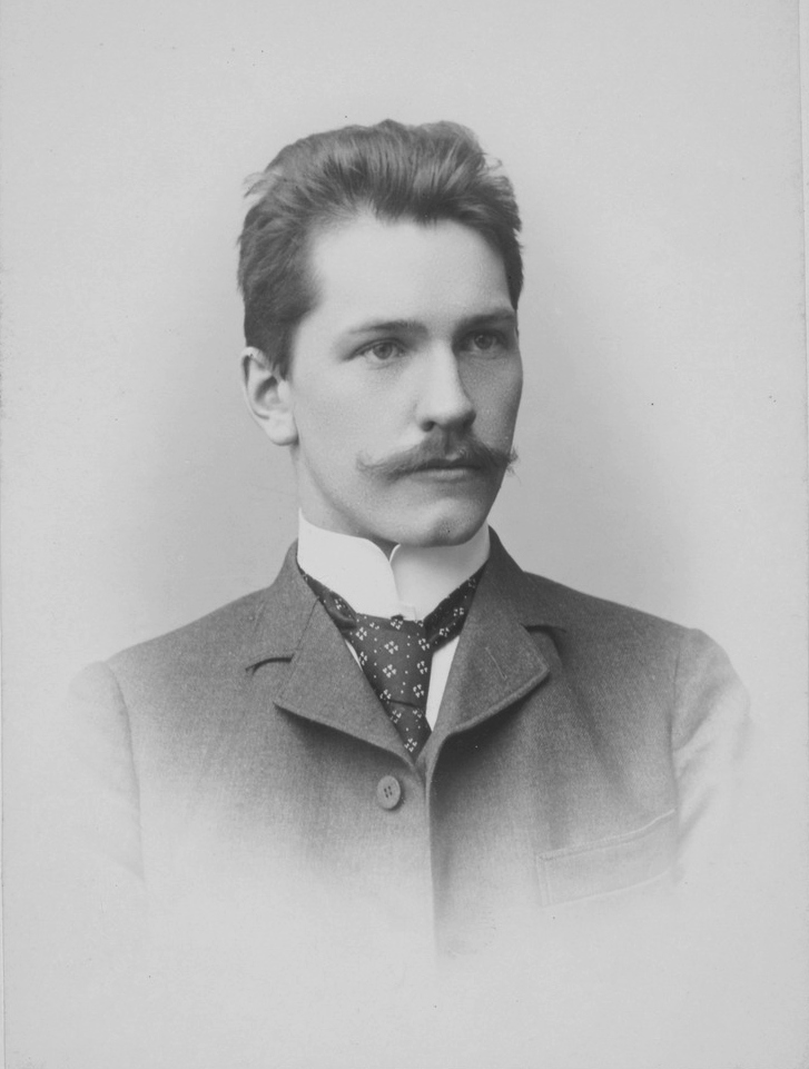 Uno Ullberg, Finnish arcitect.